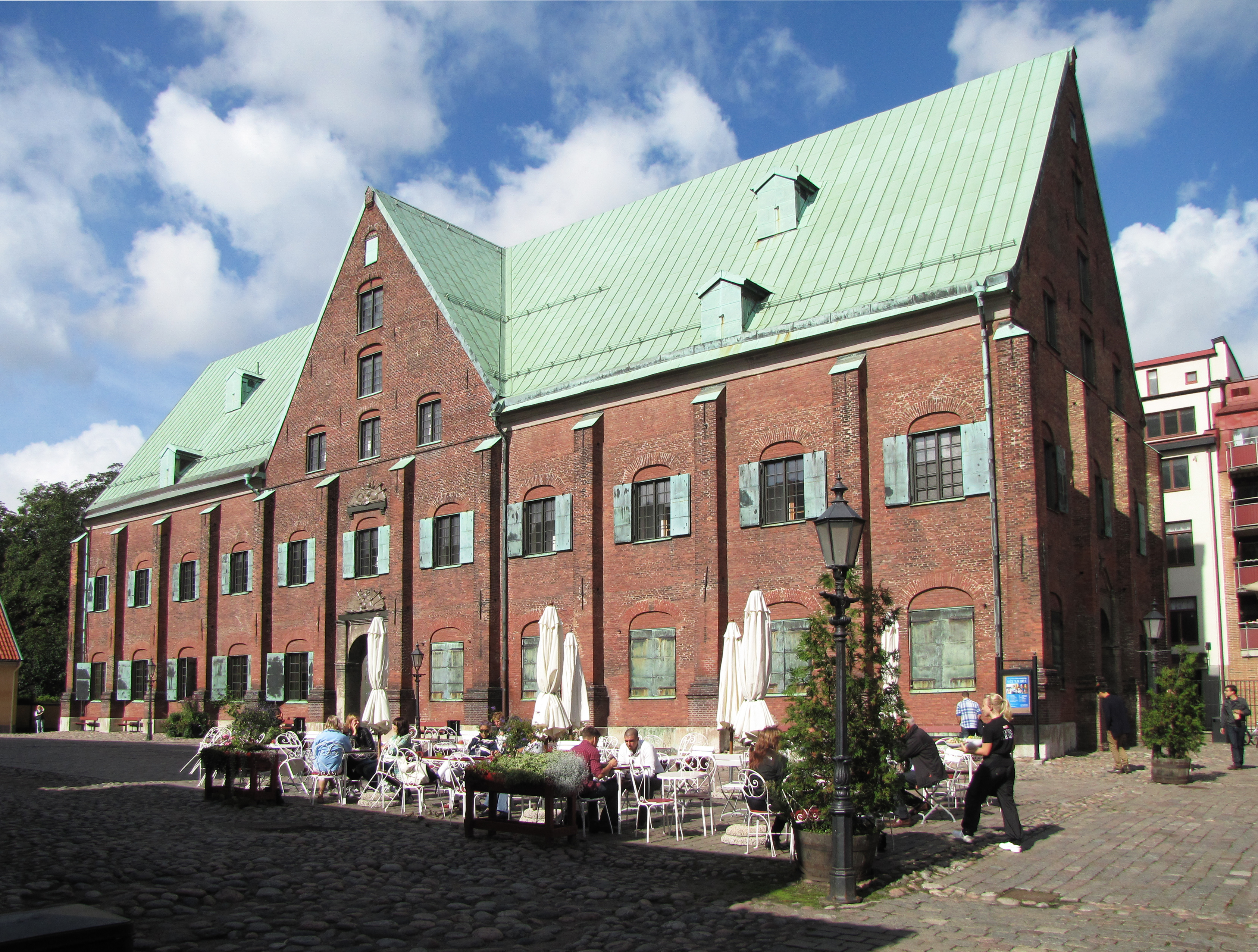 "Kronhuset" (which translates to "the crown house", a house belonging to the state) is an old house in Göteborg, built around 1650 as a weapon storage.